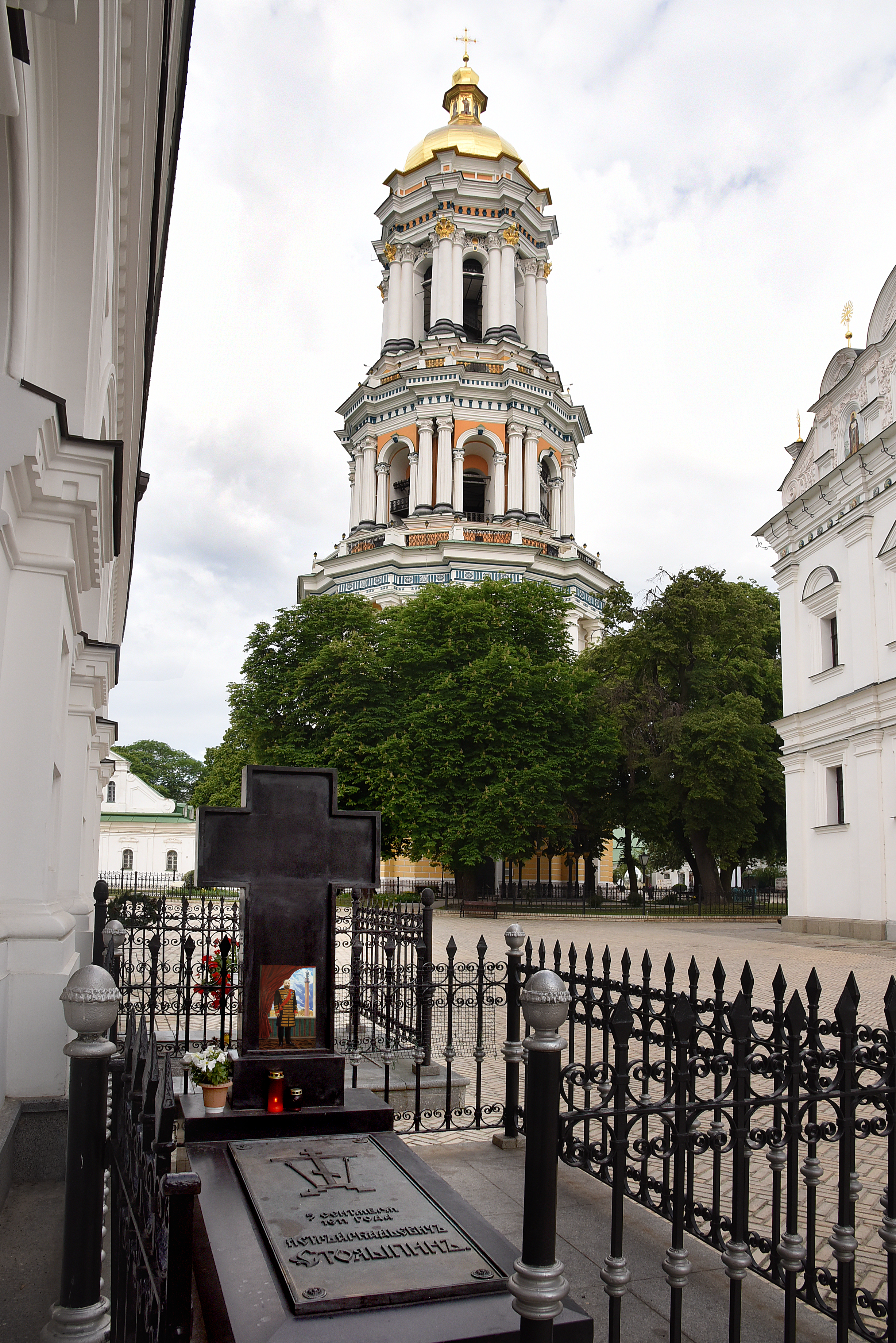 Stolypin's grave in the Pechersk Monastery (Lavra) in Kiev. 2018